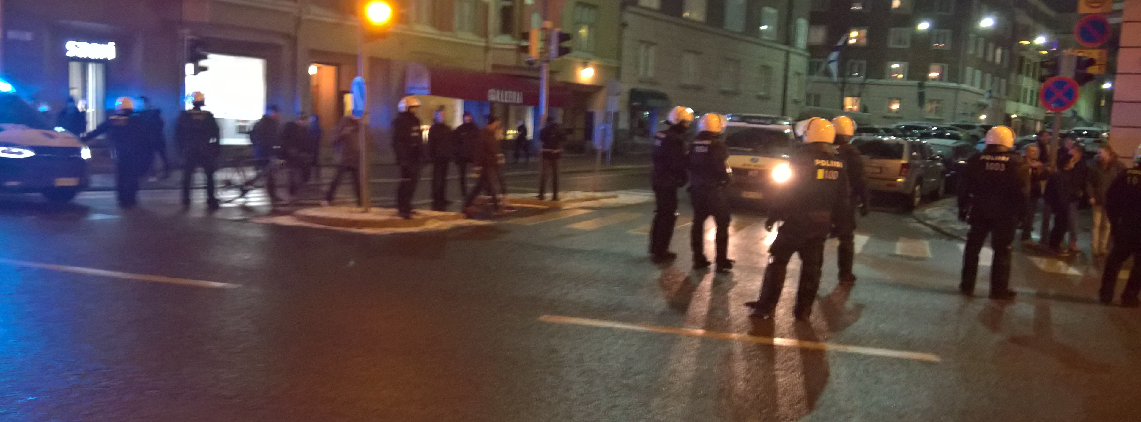 The 612 parade in Helsinki, December 6, 2017. Policemen in the intersection of Museokatu and Runeberginkatu.